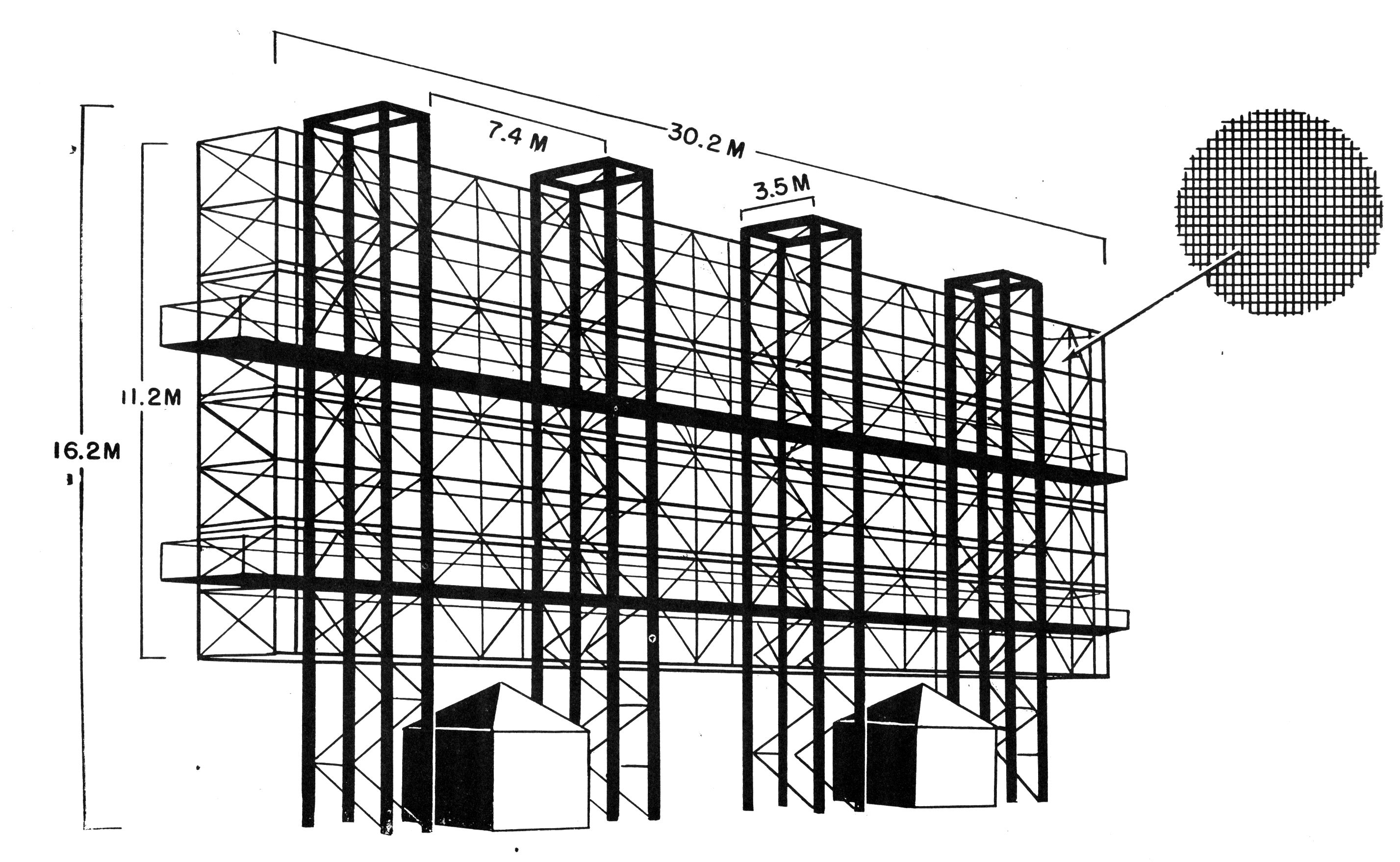 An illustration of a German World War II Mammut "Hoarding" Radar from TM E 11-219 "Directory of German Radar Equipment".